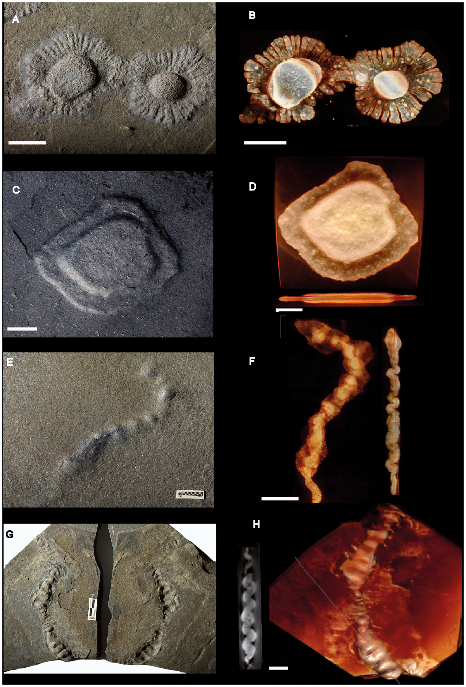 Pyritized macrofossil assemblage from the FB2 black shales of the Francevillian Series, Gabon. Photographs and micro-CT volume renderings in semi- or full transparency. (A–D) Lobate forms showing sheet-like structure and radial fabric (A, B). (E–H) Elongate forms showing sinuous shapes and tightly folded structure. In G, both part (positive epirelief, left) and counterpart are shown. Scale bars 1 cm